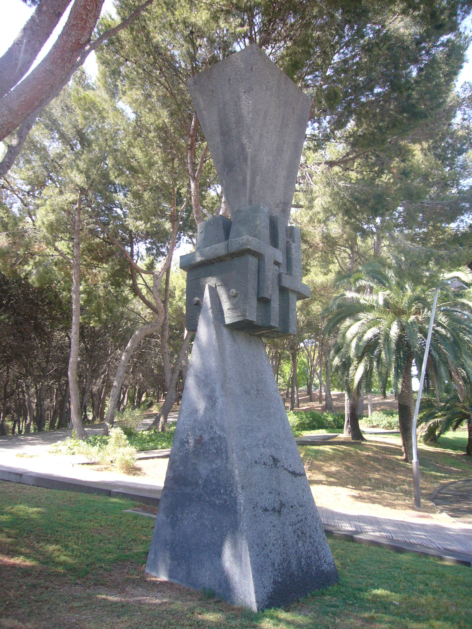 Gardens "Mirador de l'Alcalde" in Montjuïc, Barcelona.